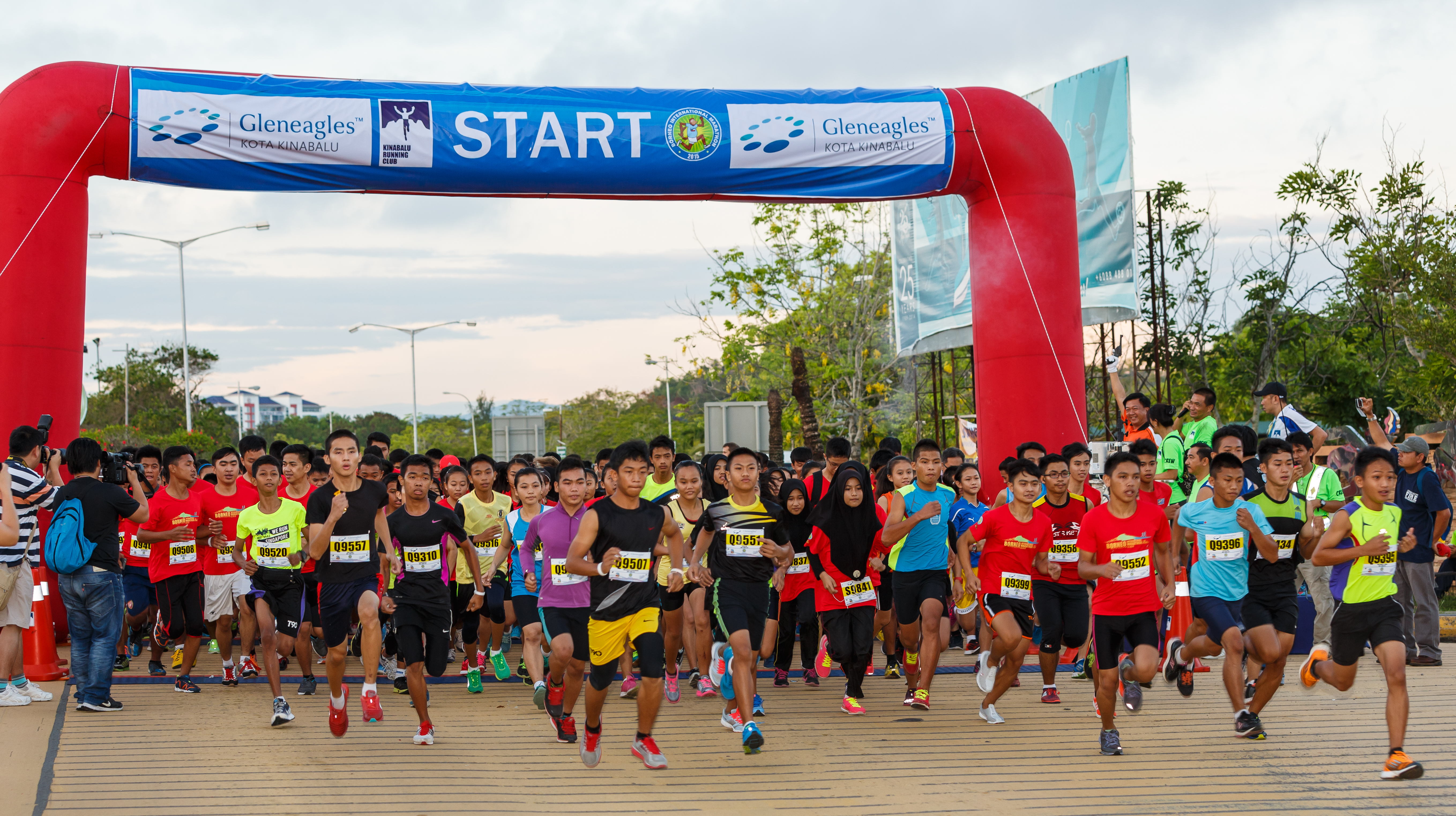 Kota Kinabalu, Sabah: Start of the 10 km School Category for runners with an age of 18 and below at the Borneo International Marathon 2015 (In front of Likas Stadium)